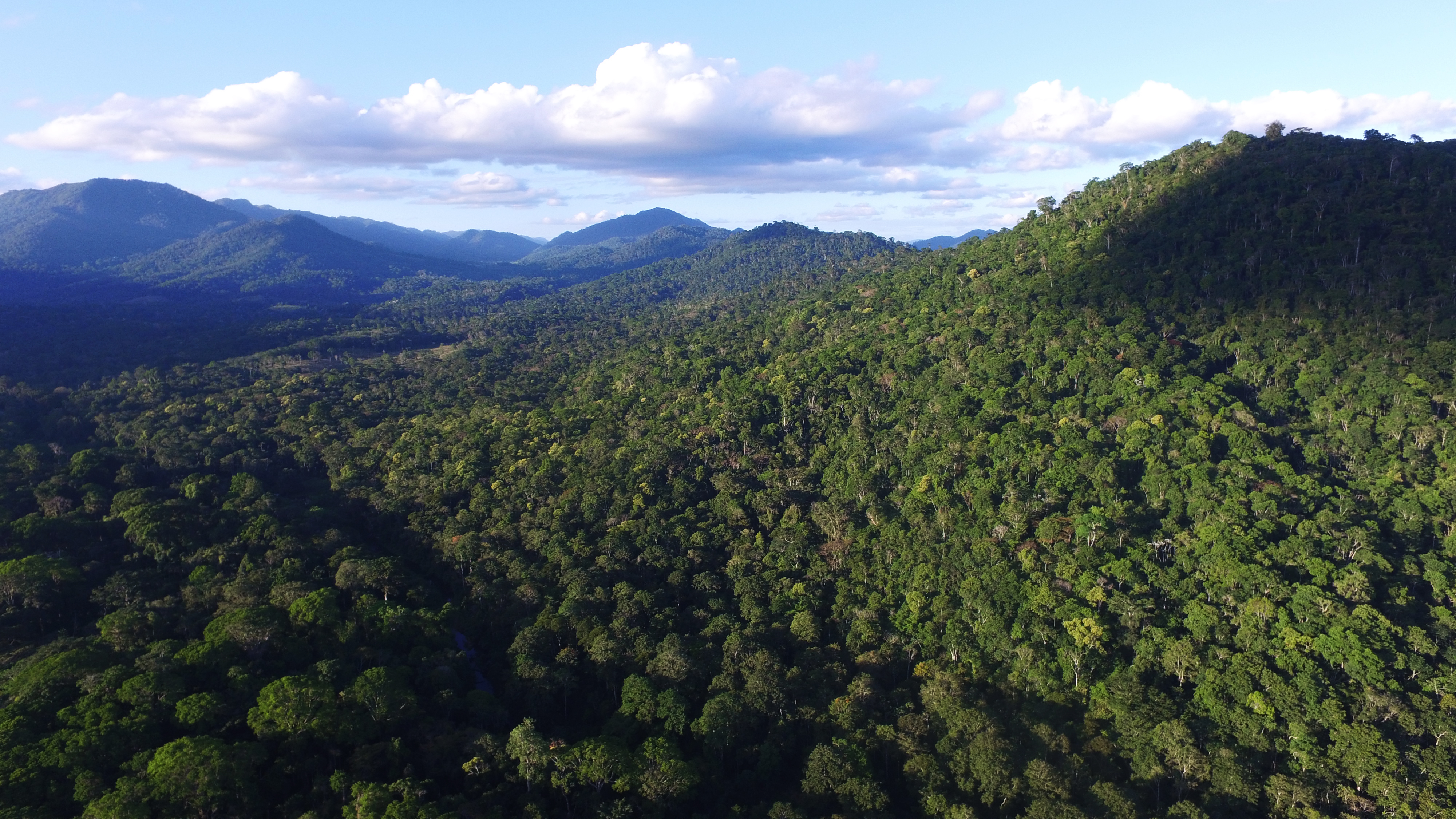 Vista aerea da vegetação na RPPN Serra Bonita em Camacan - Bahia.